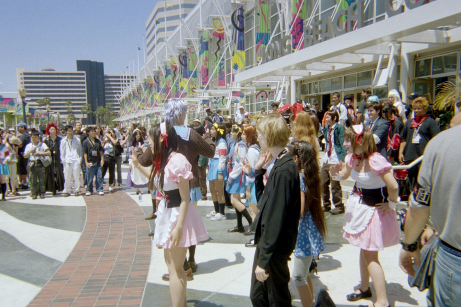 A giant group of people doing the dance for The Melancholy of Haruhi Suzumiya, Hare Hare Yukai. The event took place at Anime Expo 2007 in Long Beach, California. Uploader is also the photographer and chooses CC-BY-SA2.5.